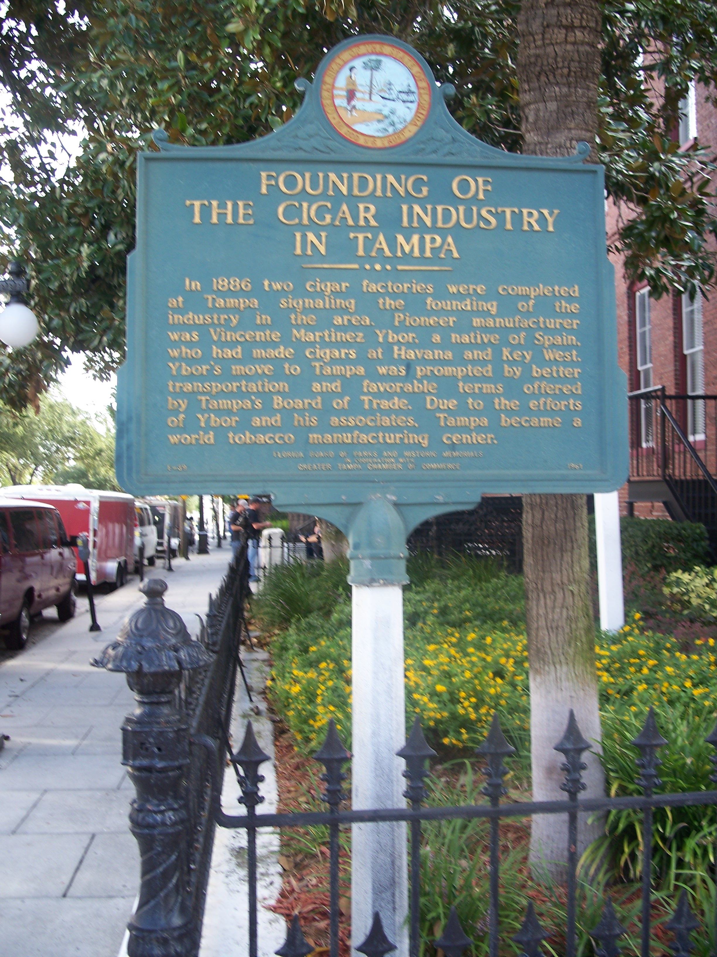 Historical marker about the history of the cigar industry in Ybor City, in Tampa, Florida